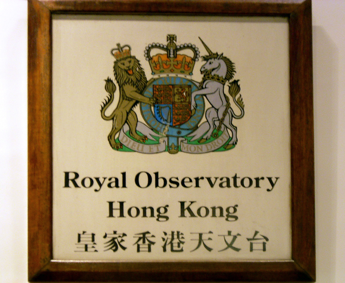 Royal Observatory HK Logo